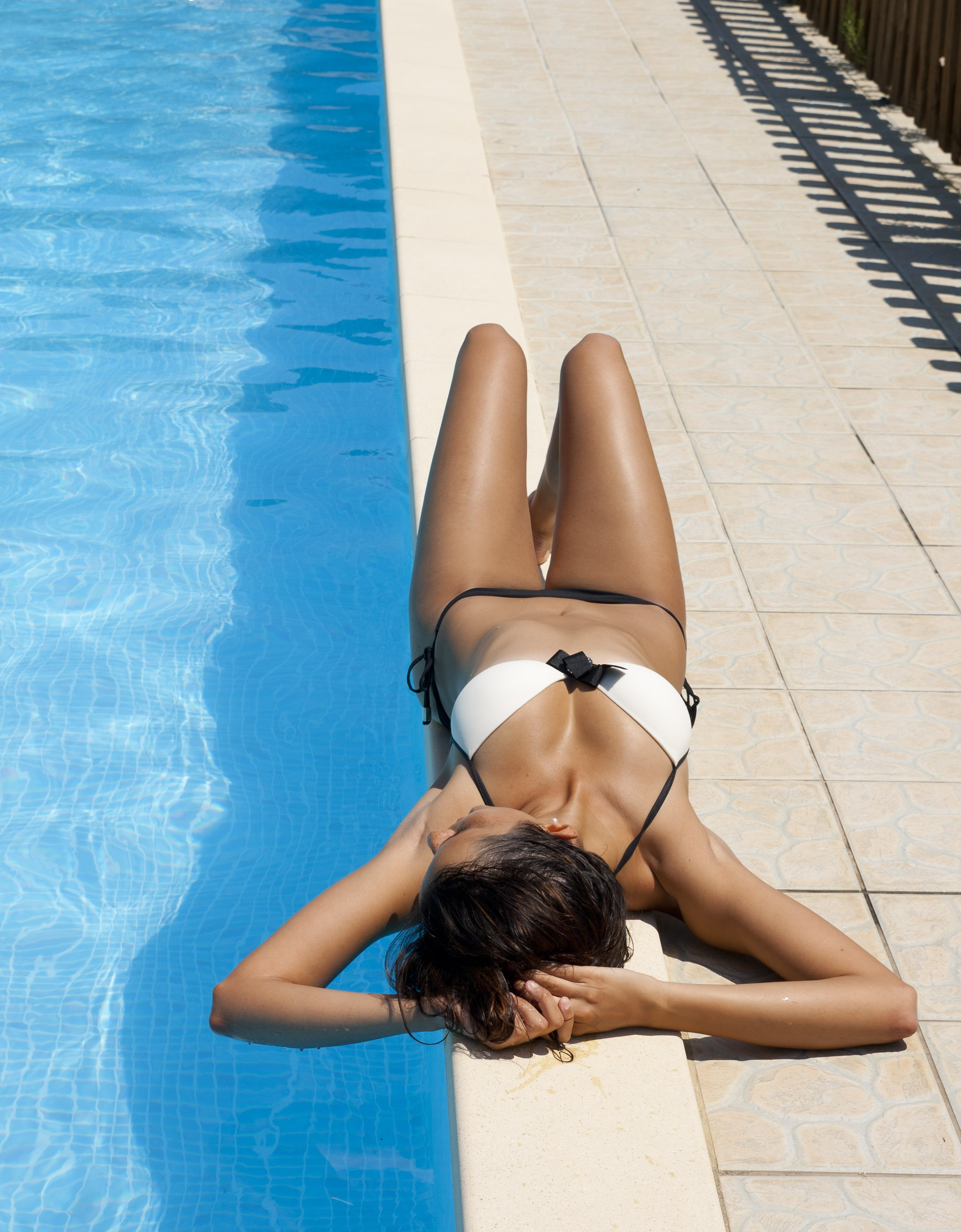 Sunbathing at an outdoor swimming pool.